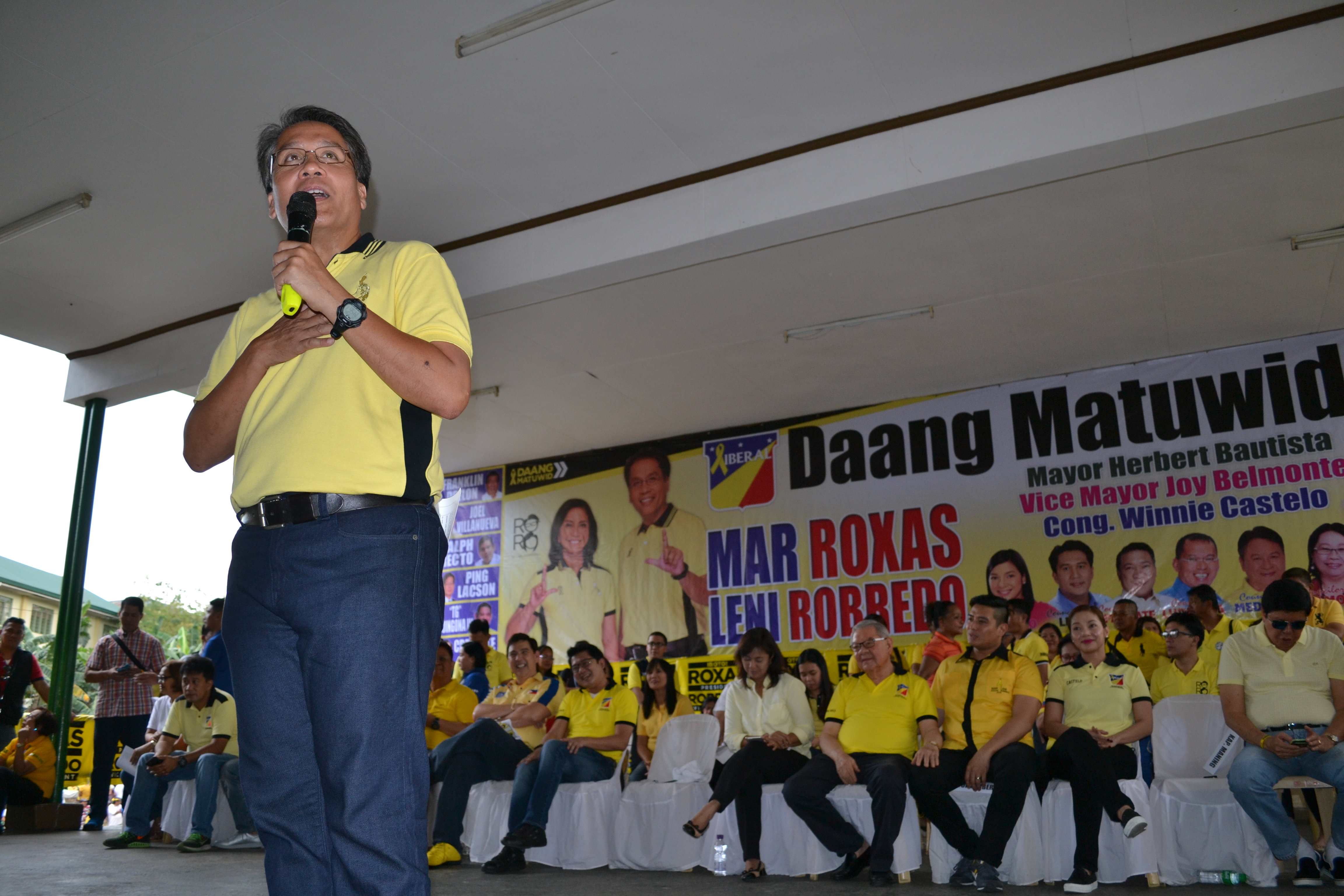 Mar Roxas, the 2016 Presidential Candidate of the Liberal Party delivered her speech in front of barangay officials in a LP campaign rally in Brgy. Commonwealth, Quezon City on February 17, 2016.